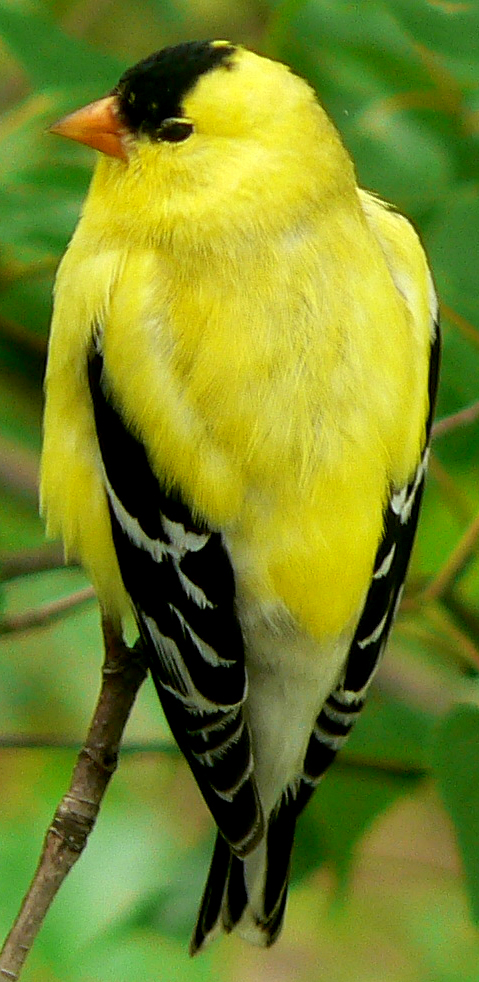 An American Goldfinch resting on a branch.